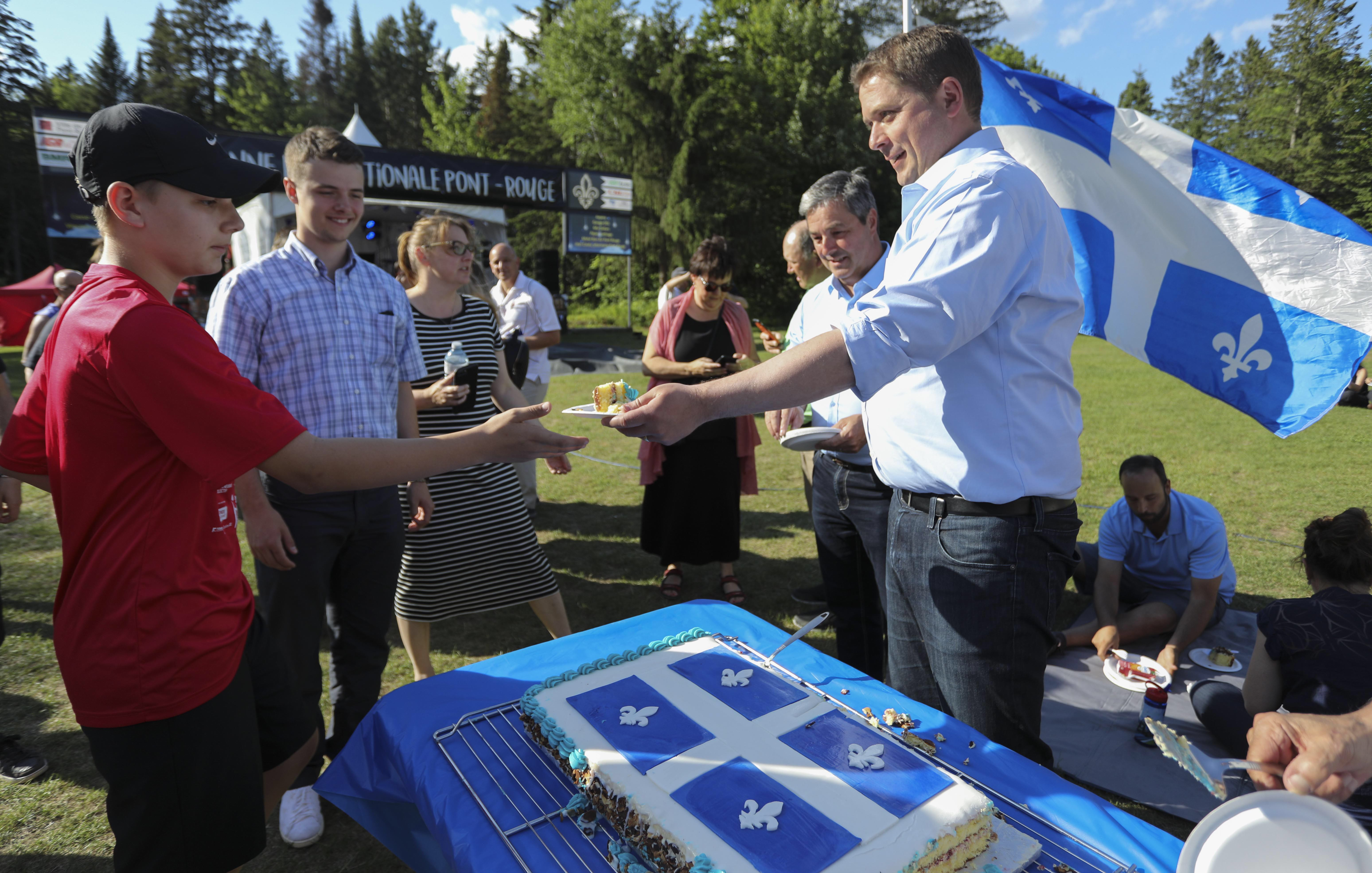 Celebrating #FêteNationale in Pont-Rouge with amazing Quebec food, music, culture, and of course great company including Joel Godin.